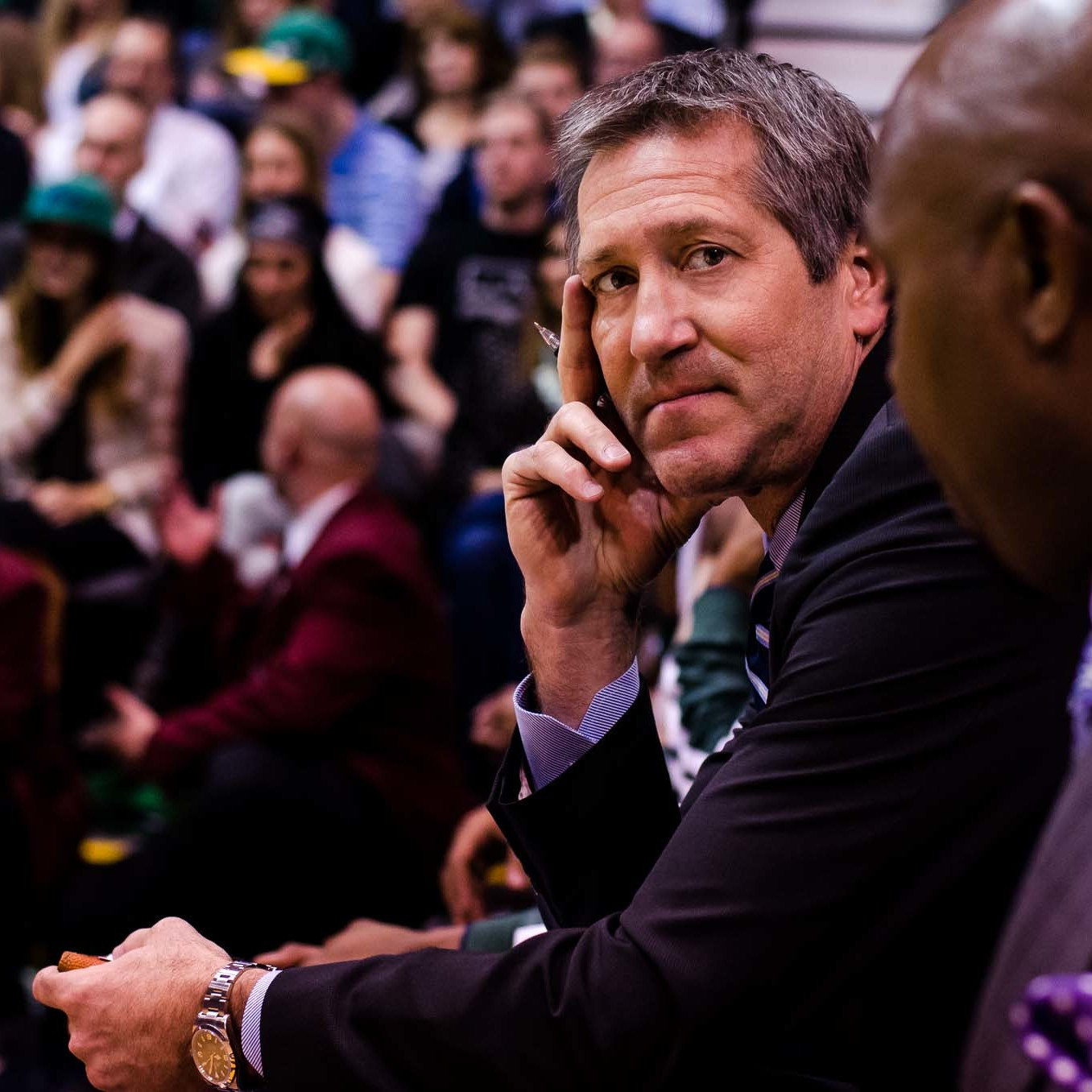 Coach Jeff Hornacek and the bench of the Utah Jazz at EnergySolutions Arena in Salt Lake City, UT